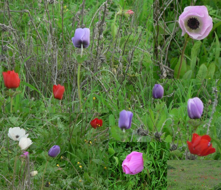 Anemone coronaria כלנית מצויה This is a collague of Anemone coronaria (Kalanit in Hebrew) of various colors, all found on the same field in Israel. The Anemone coronaria comes in shades of red, pink, purple, blue and white. However, the most common color is red. Author: MathKnight